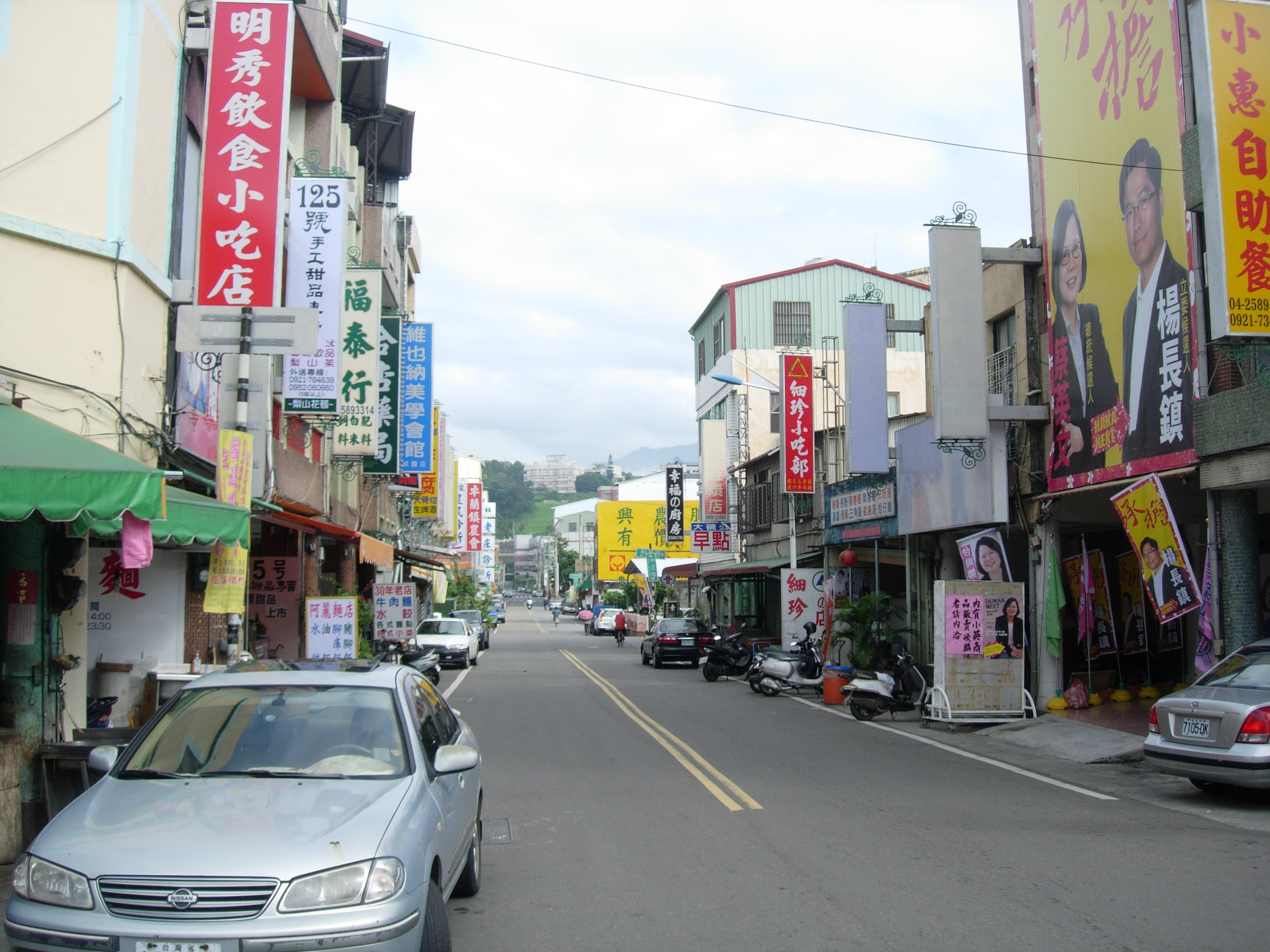 Jhuolan Jhongjheng Road